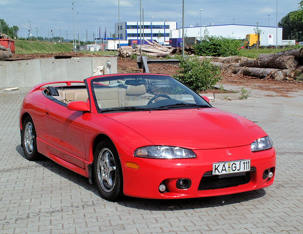 Mitsubishi Eclipse Spyder